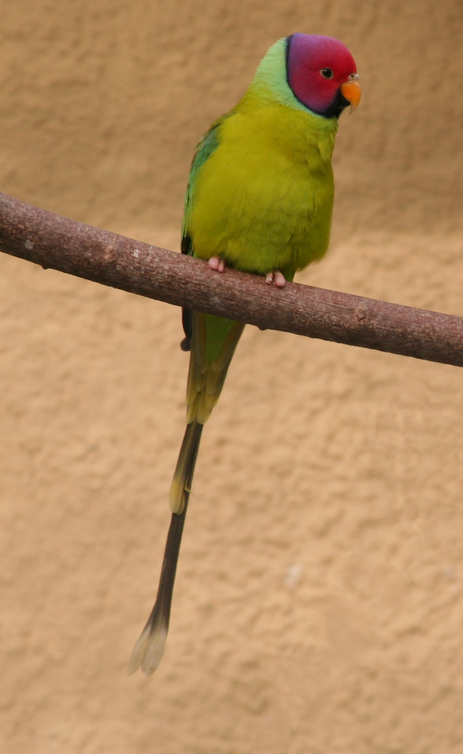 Plum-headed Parakeet (Psittacula cyanocephala) on a perch.